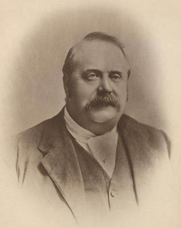 George Reid in the 1890s.